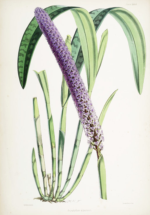 Illustration of Arpophyllum giganteum